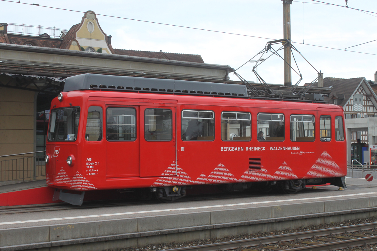 AB BDeh 1/2 1 at Rheineck train station.